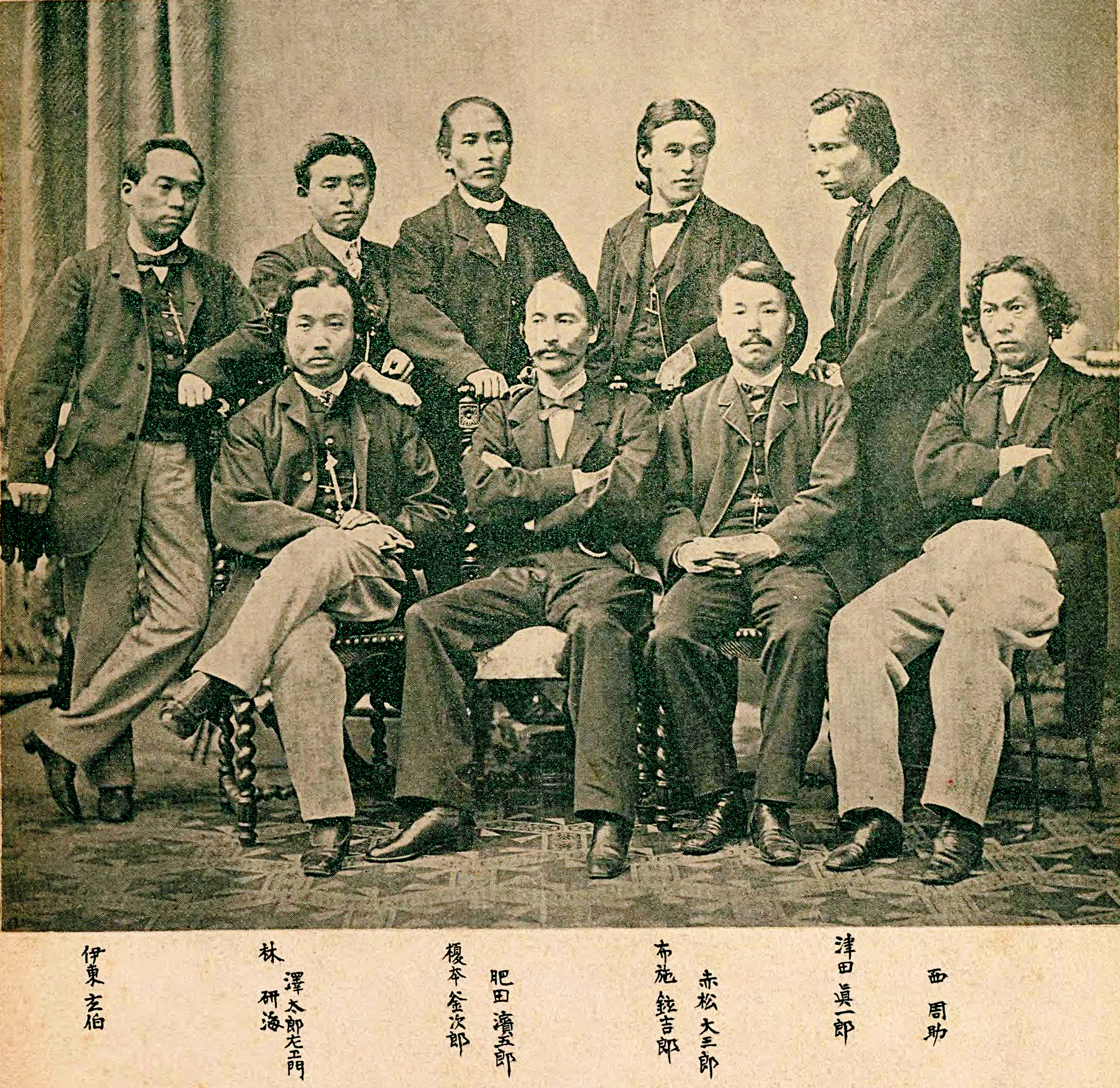 The first students dispatched abroad by the Tokugawa shogunate